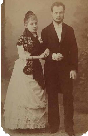 Wincenty Lutosławski and his wife Sofia Perez Casanova